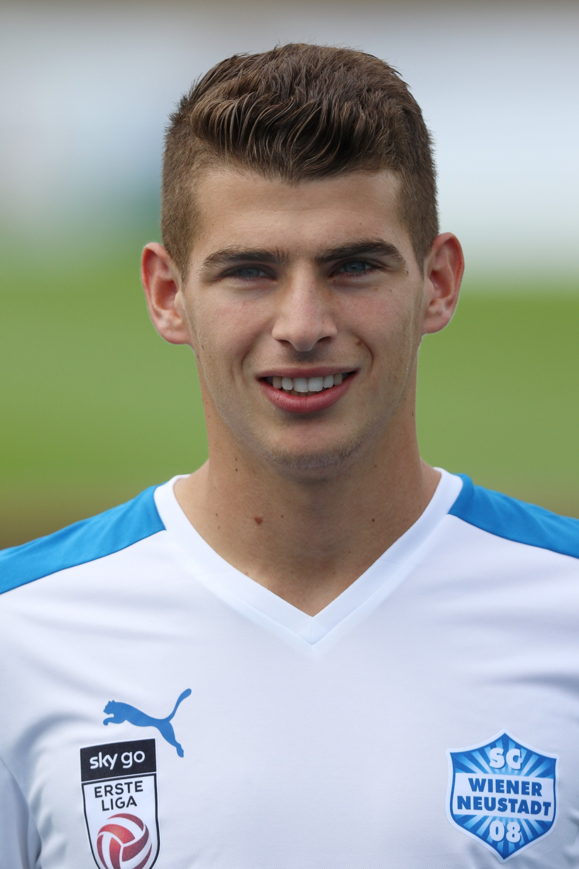 SC Wiener Neustadt squad presentation summer 2017. – The photo shows Ivan Ljubic.